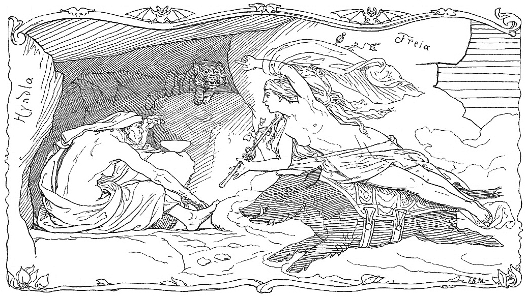 The goddess Freyja with her boar Hildisvíni go to see Hyndla, as attested in Hyndluljóð. Image appears as an illustration for Hyndluljóð.